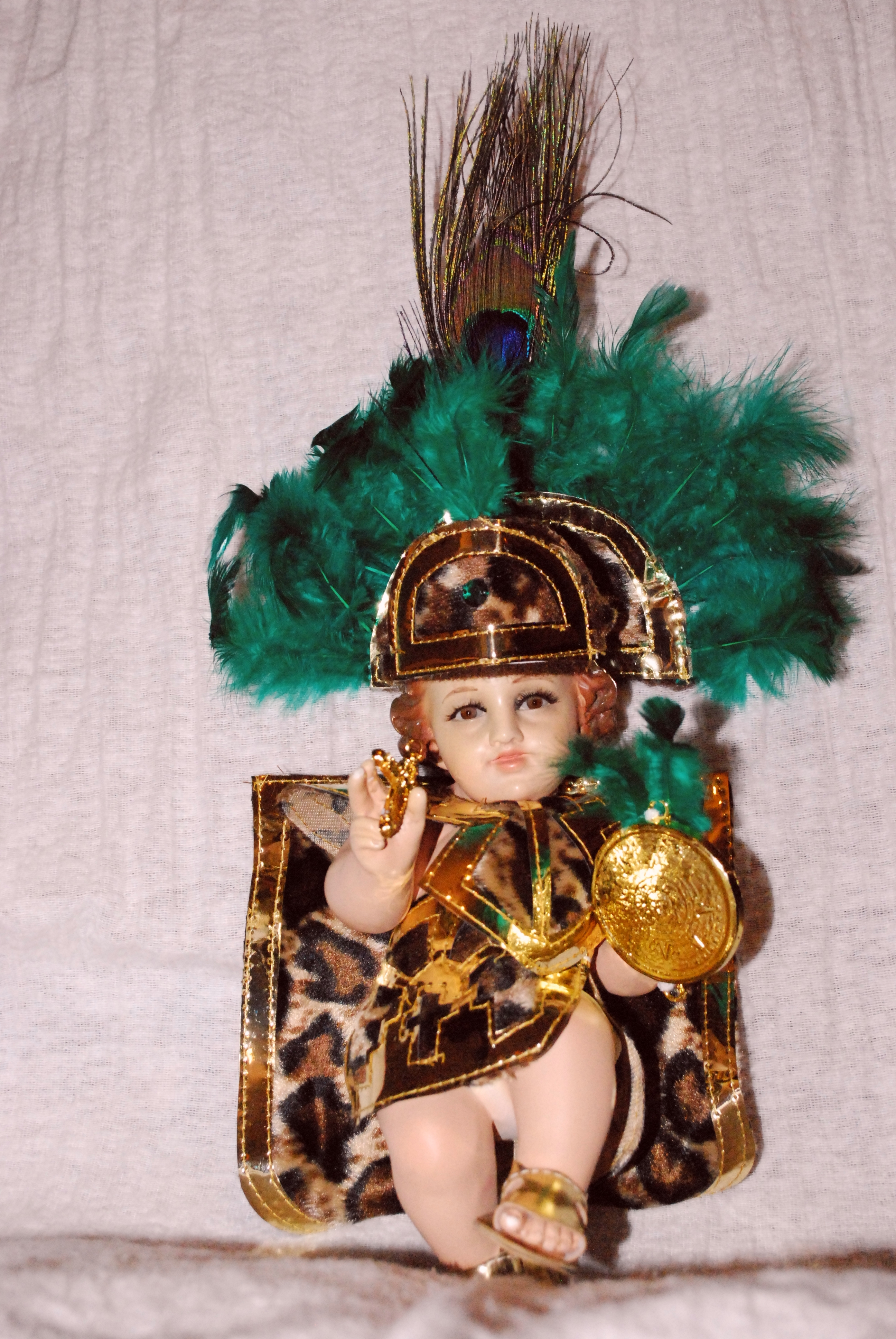 Image of a Niño Dios (Child Jesus) as the "Niño pan" or in an Aztec costume for Candlemas presentation. This image is the property of this author.